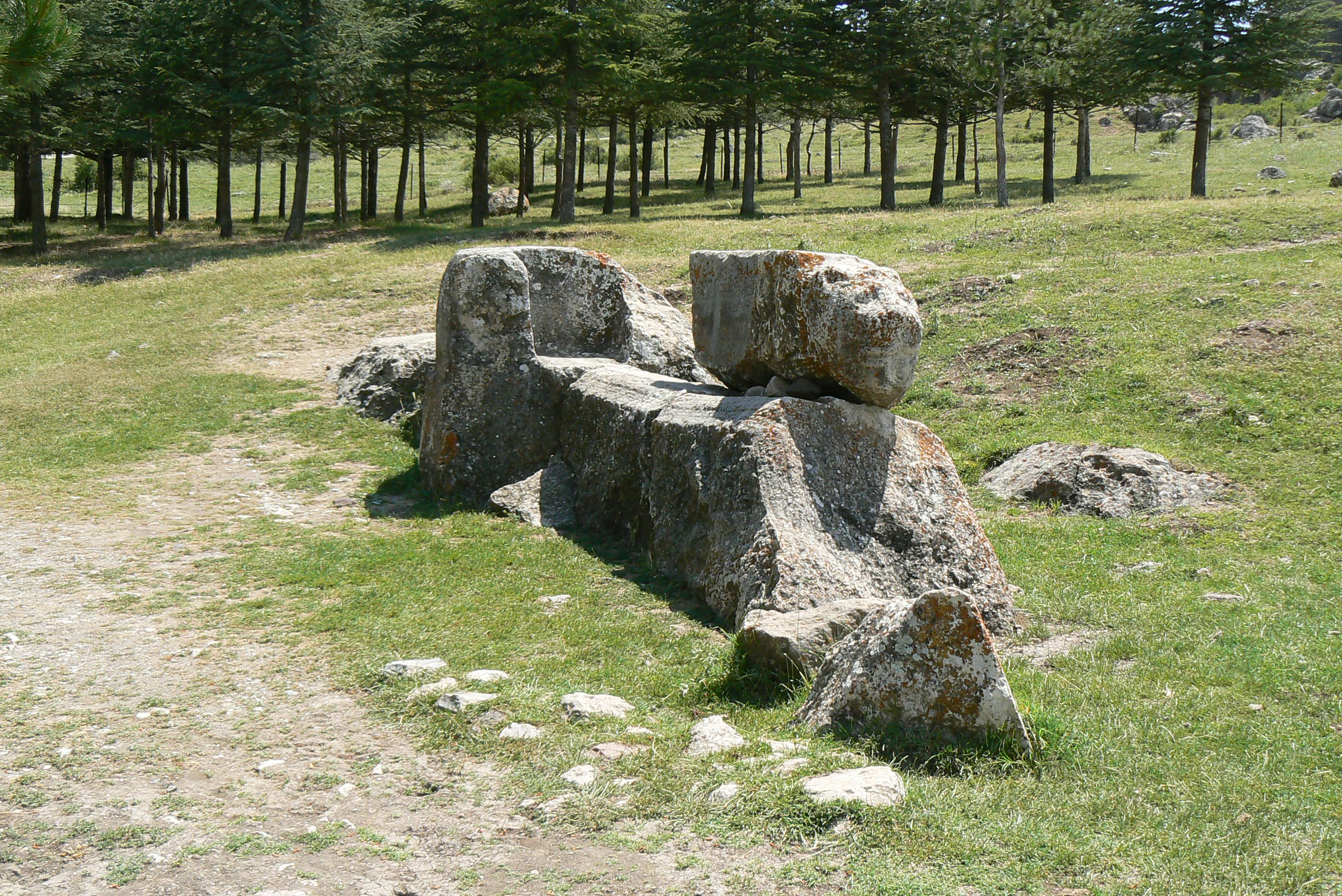 Remain of the Lion basin at the gate of the Great Temple, Lower City, Hattusa, Turkey